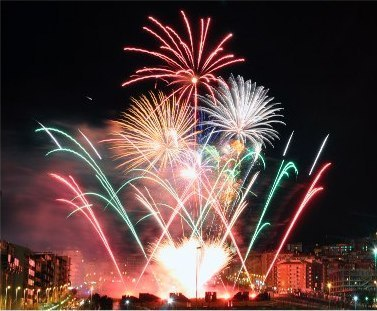 Fuegos artificiales tras la cabalgata de los Reyes Magos de 2010 en Jaén. En el Castillo se observa iluminada la estrella de oriente.